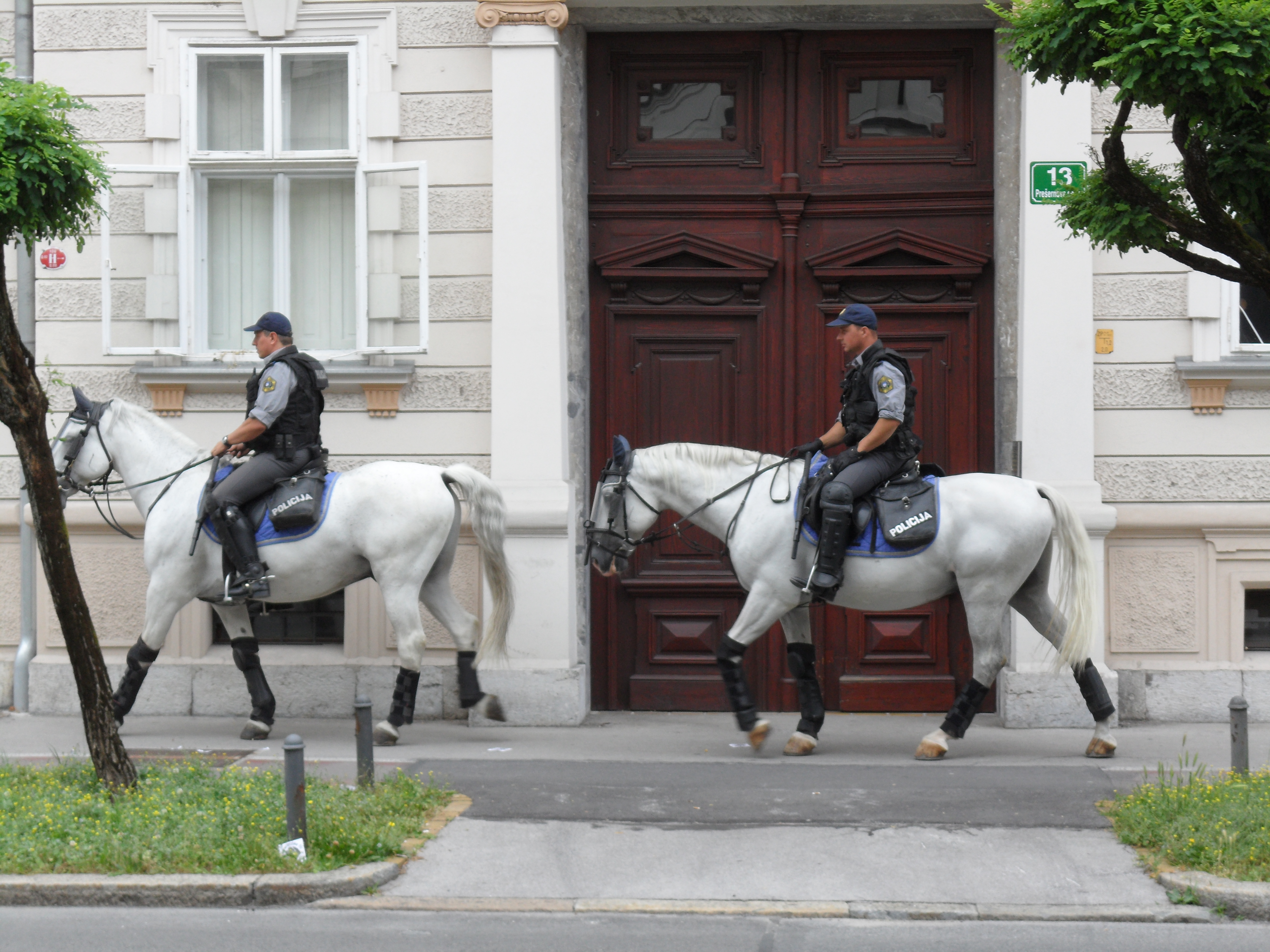 Police guards near Presidental palace on June 25, Slovenian National day